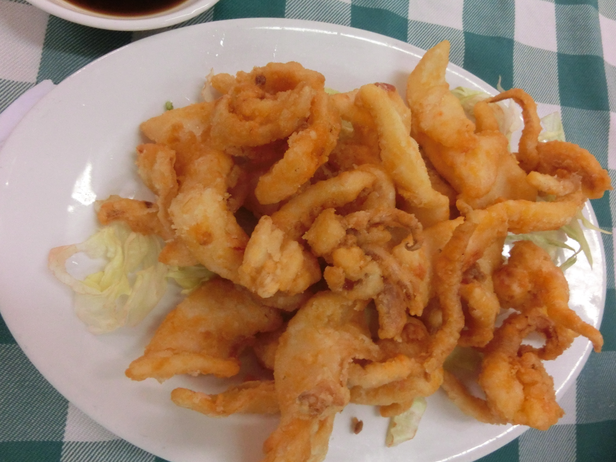 長洲, One of Seafood restaurants, Cheung Chau, Hong Kong